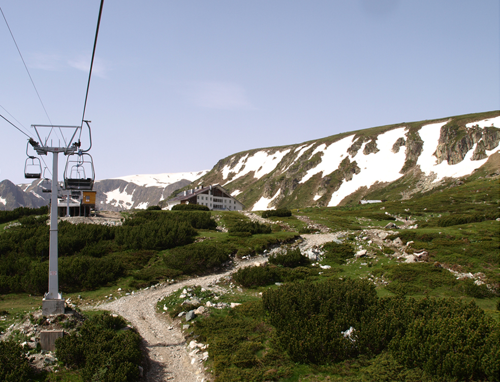 The lift from Panichishte and the Rila Lakes hotel Лифта от Паничище и хижа (хотел) "Рилски езера"